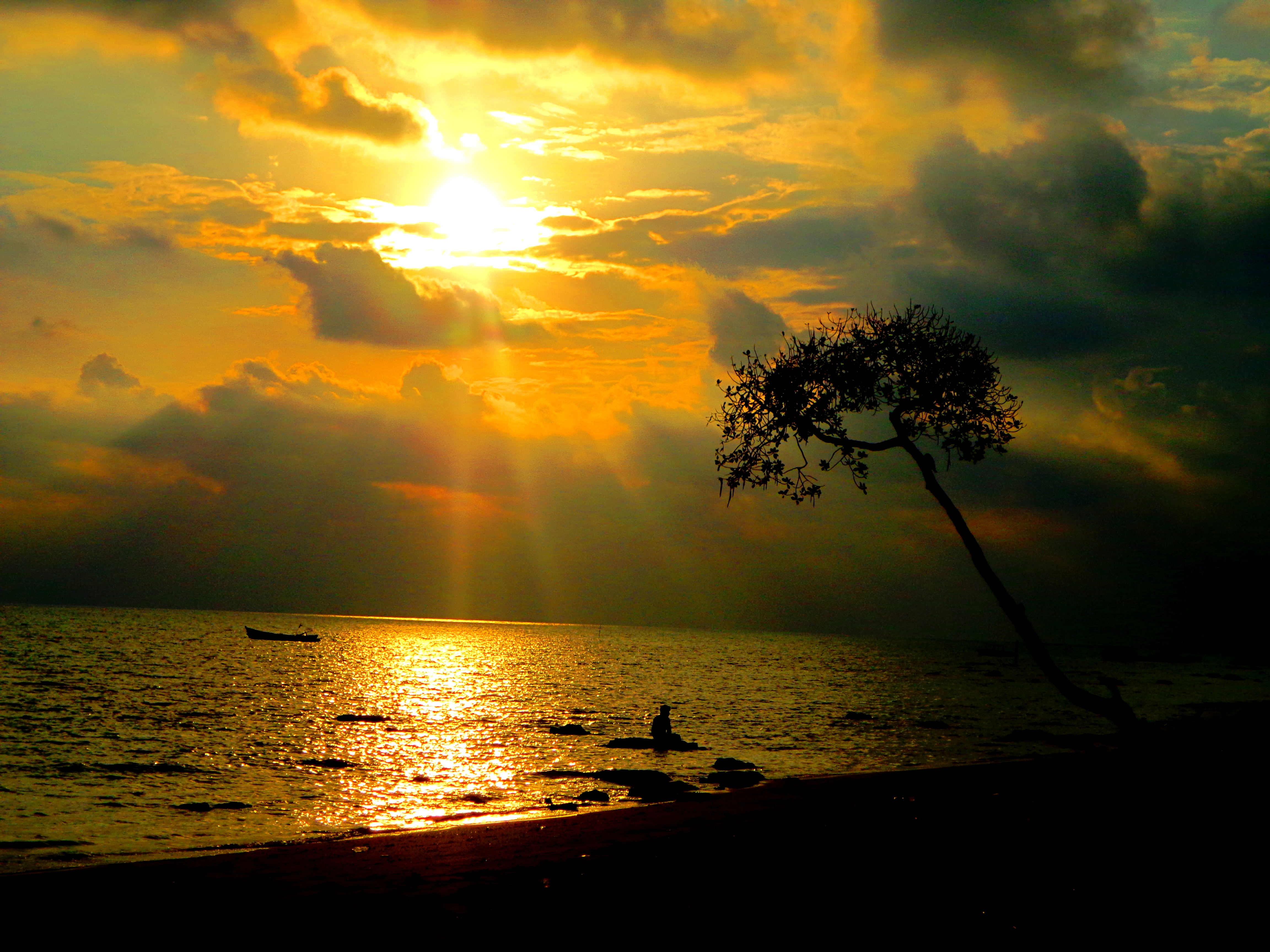 This photo was taken at the beach no.3 at Haveleck in the Andaman Islands .